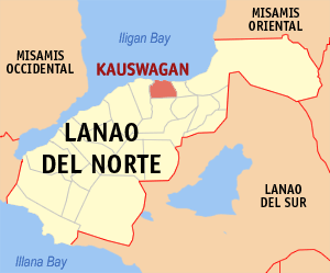 Map of the Lanao del Norte showing the location of Kauswagan